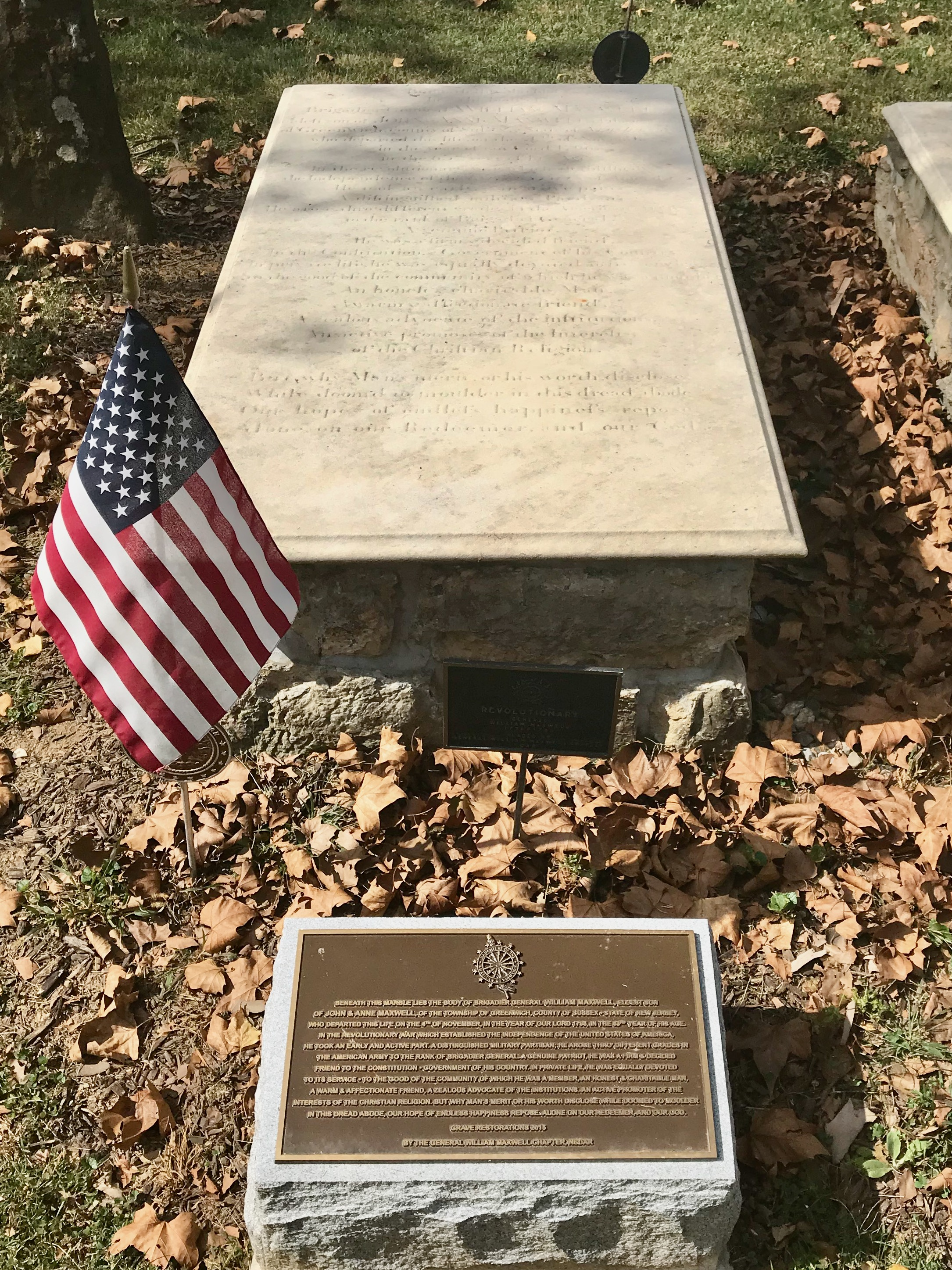 Gravestone for General William Maxwell in the Old Greenwich Presbyterian Churchyard, Greenwich Township, Warren County, New Jersey.